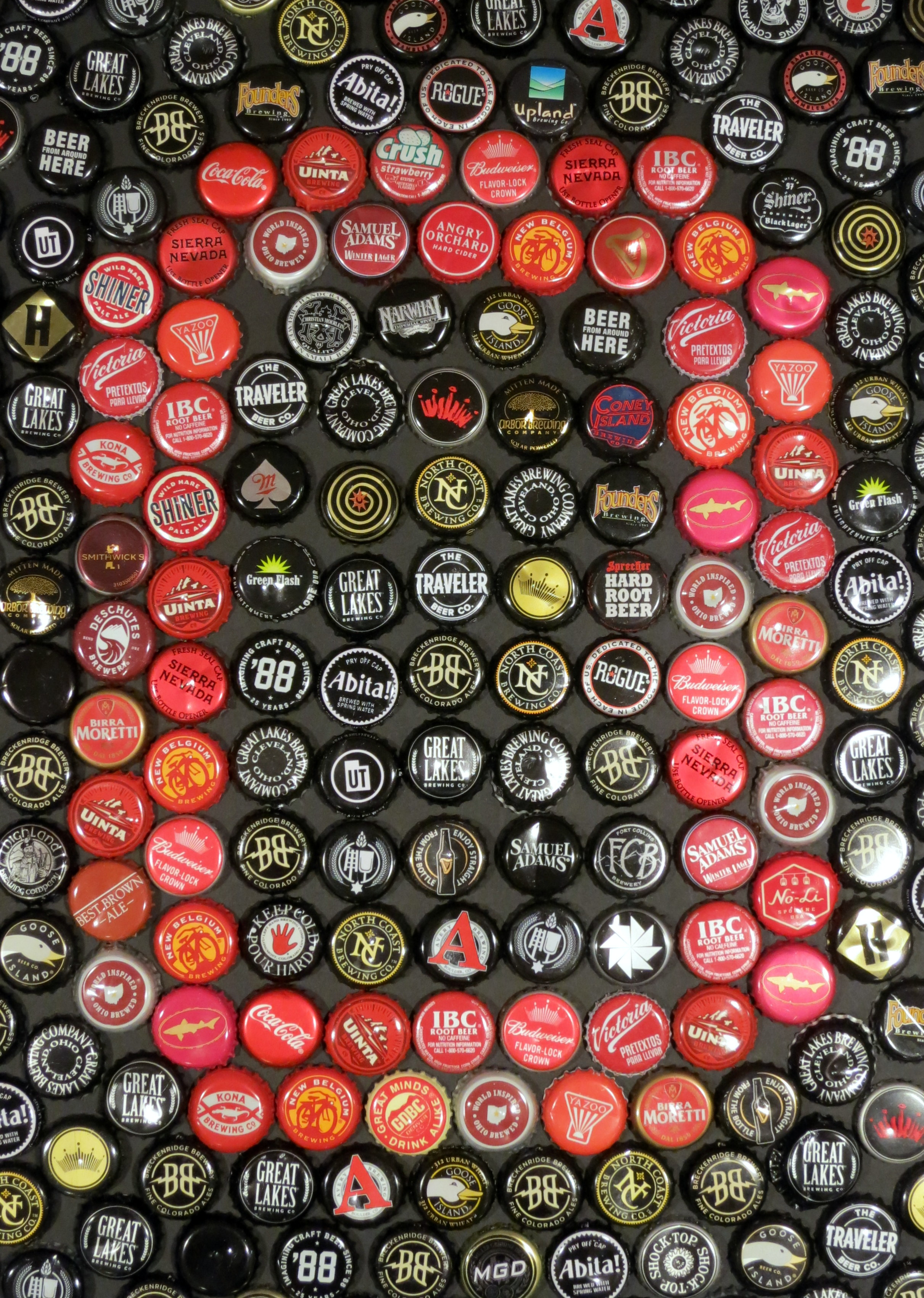 Block O bottle cap mosaic on black background